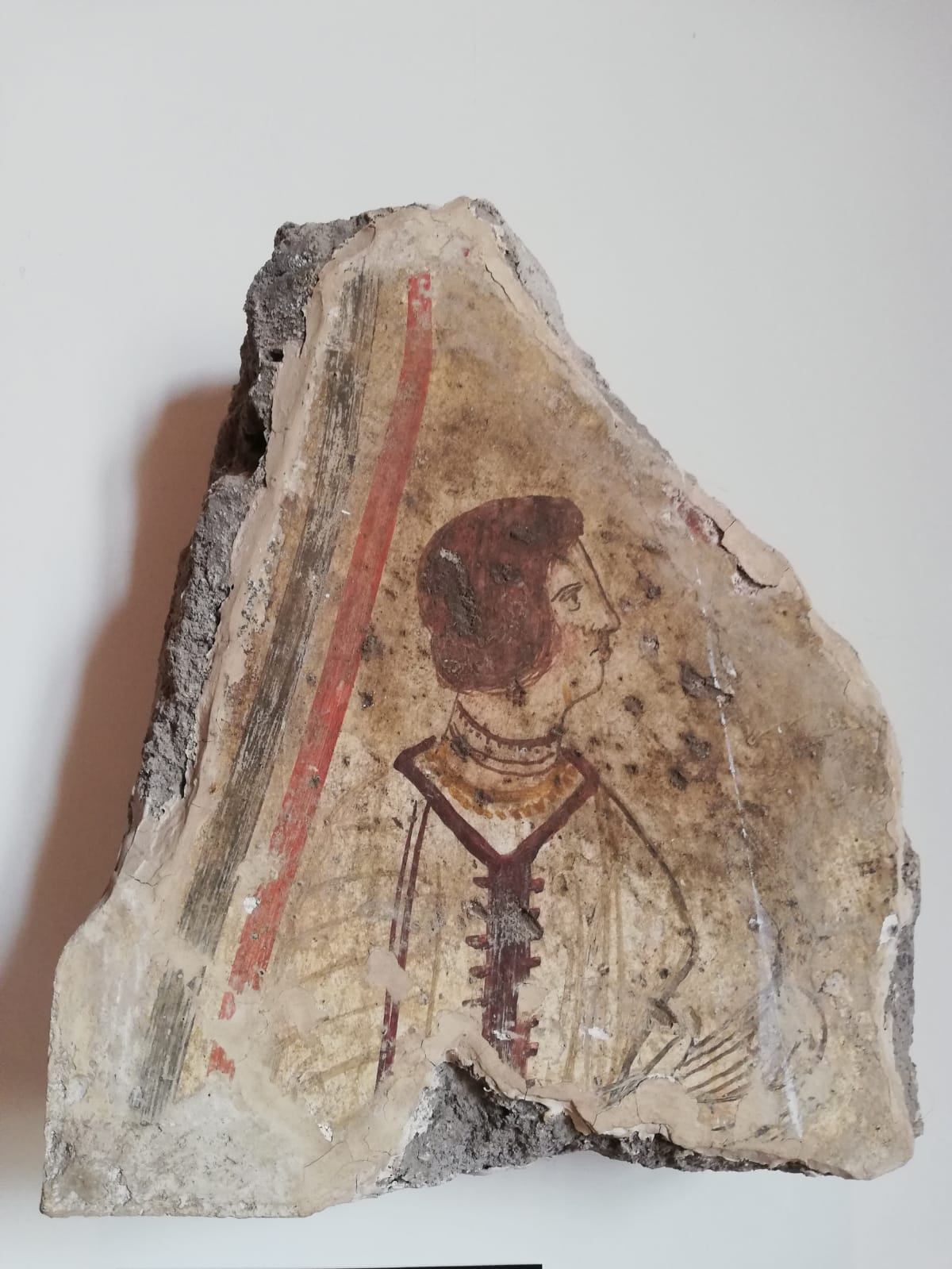 Samnita fragment in museo campano, capua, italy